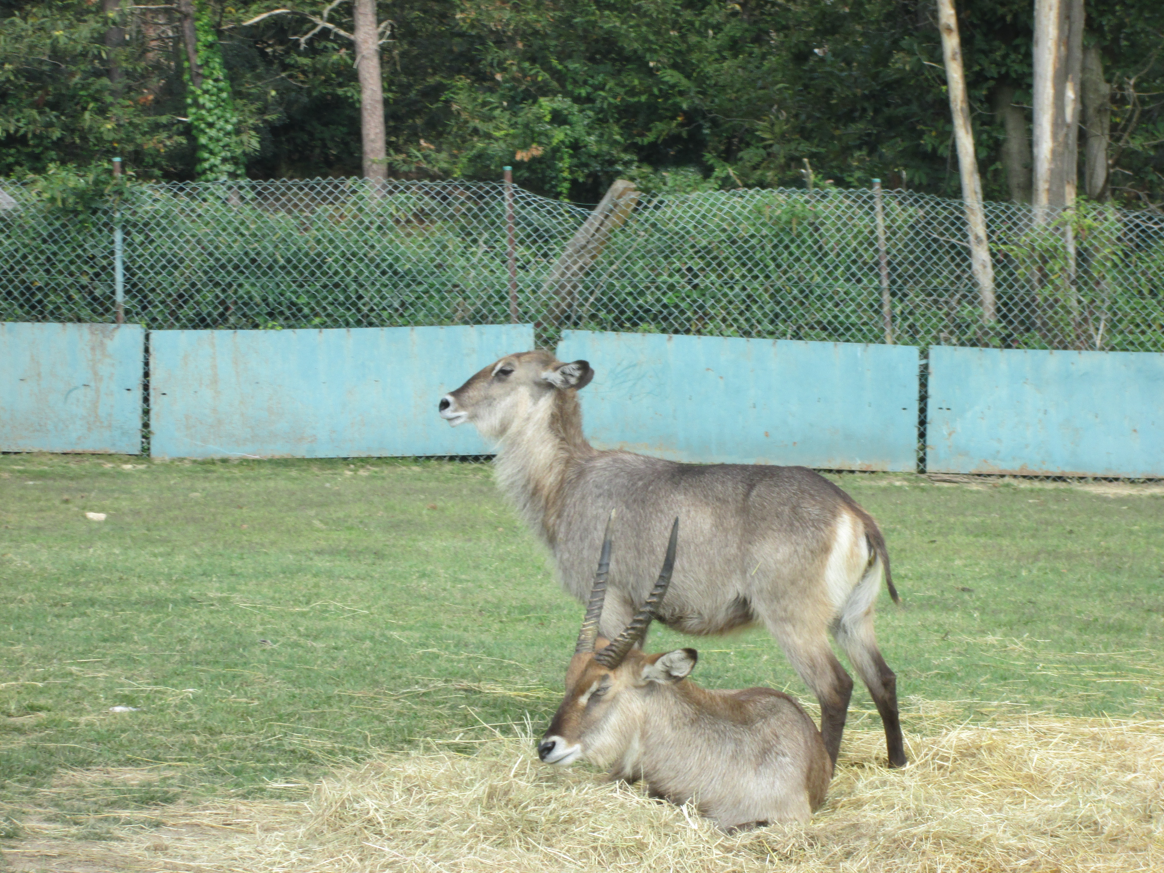 Kobus ellipsiprymnus defassa at Pombia Safari Park ITALY